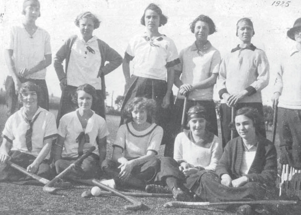 Pacific Railway AC women's field hockey team, in 1925.